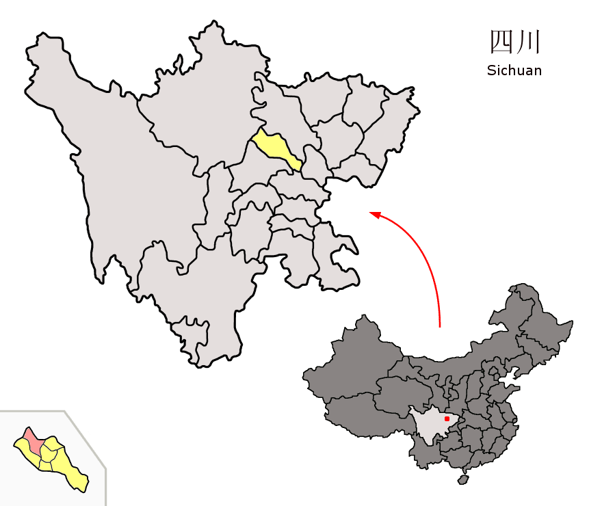 Location of Mianzhu City (pink) and Deyang Prefecture (yellow) within Sichuan province of China Map drawn in october 2007 using various sources, mainly : Sichuan province administrative regions GIS data: 1:1M, County level, 1990 Sichuan Counties map from